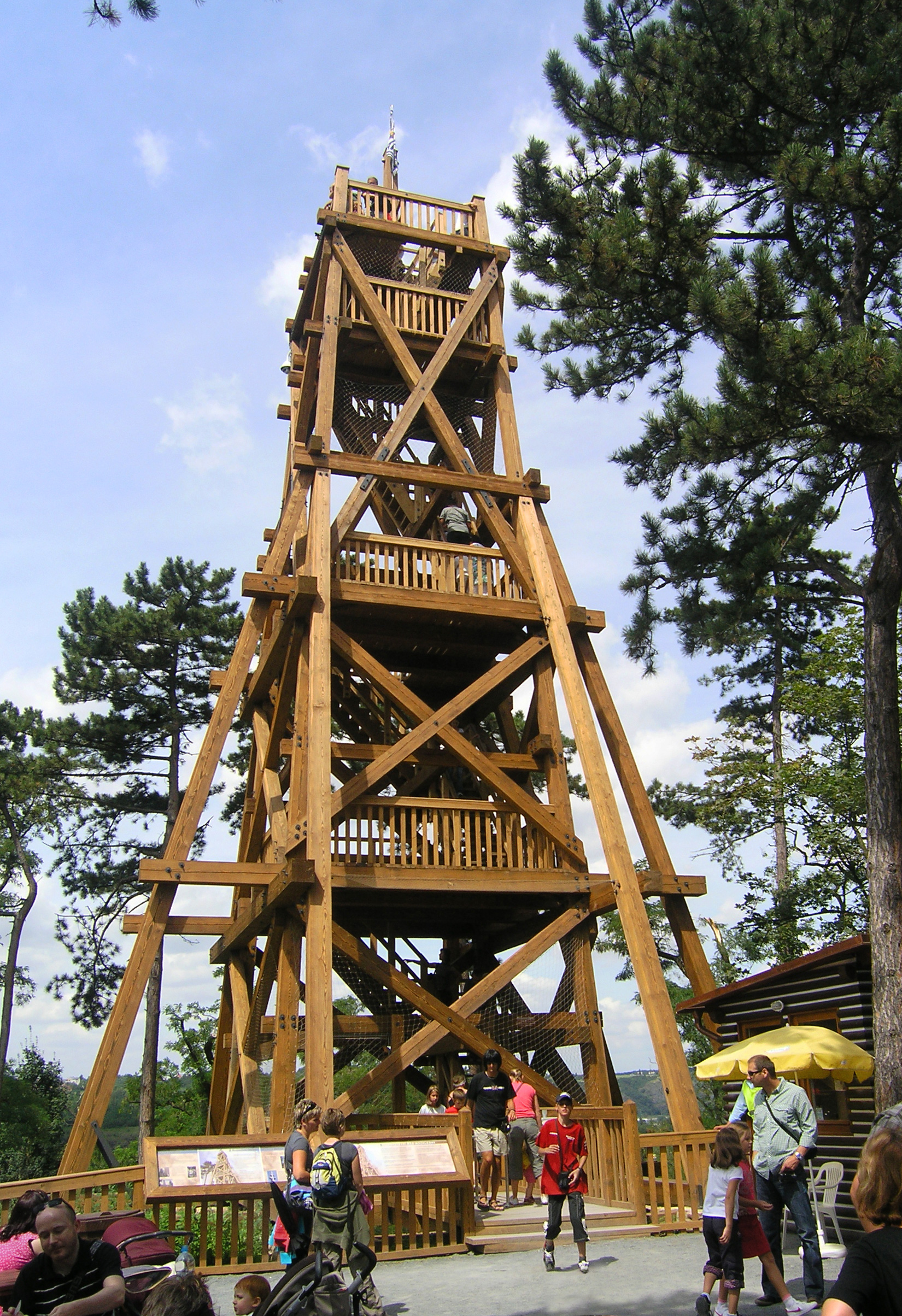 View-tower in Prague Zoo